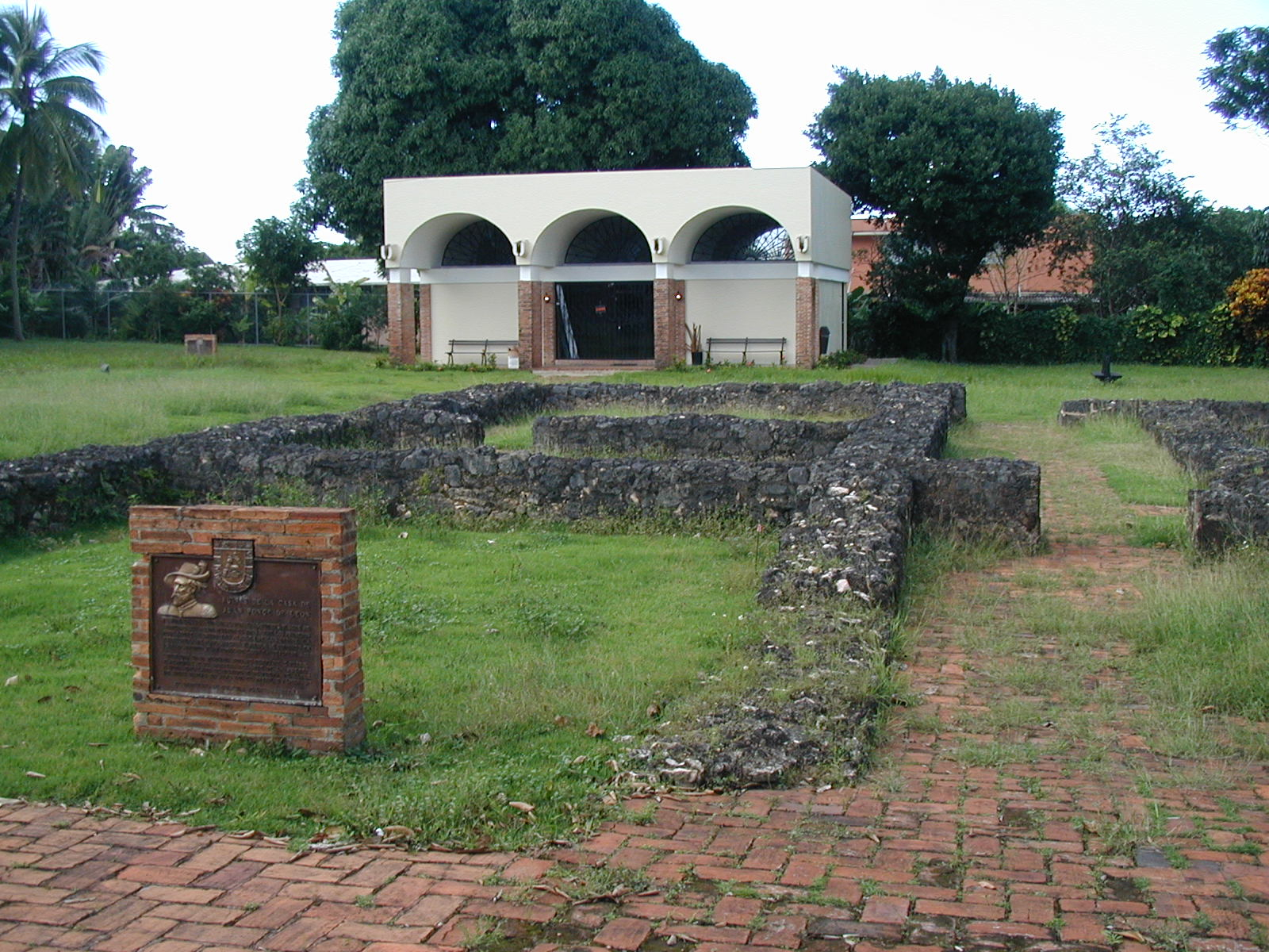 Ruins at Caparra Archaeological Site, Puerto Rico